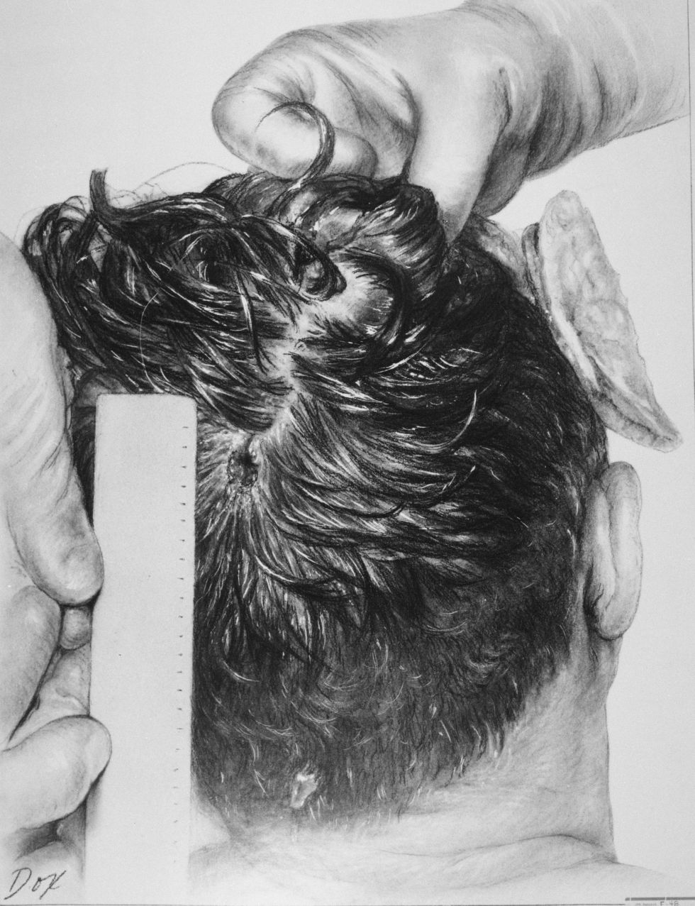 Summary Drawing depicting the posterior head wound of U.S. President John F. Kennedy. The hand at the top is holding a portion of his scalp in place. Made by medical illustrator Ida G. Dox from an autopsy photograph, and published as Figure 13 on page 104 of volume 7 (Medical and Firearms Evidence) of the Appendix to Hearings Before the Select Committee on Assassinations of the U.S. House of Representatives (1979). Vincent Bugliosi writes in Reclaiming History, Endnote pp. 258–259, In order for the entrance wound photograph to be taken, the autopsy surgeons lifted the president’s right shoulder from the autopsy table, and rolled him onto his left shoulder. Then, per his own testimony, Dr. Boswell gathered together these loose strands of scalp between his thumb and index finger and drew them forward across the gaping hole in the right front of the skull, thereby making the entrance wound on the back of the president’s head clearly visible to the photographer’s camera (ARRB Transcript of Proceedings, Deposition of Dr. J. Thornton Boswell, February 26, 1996, pp.97, 149–150, 164). Though the act of pulling the loose scalp forward across the top right of the head made the entrance wound visible, it also briefly covered the large exit defect on the right front side of the president’s head.